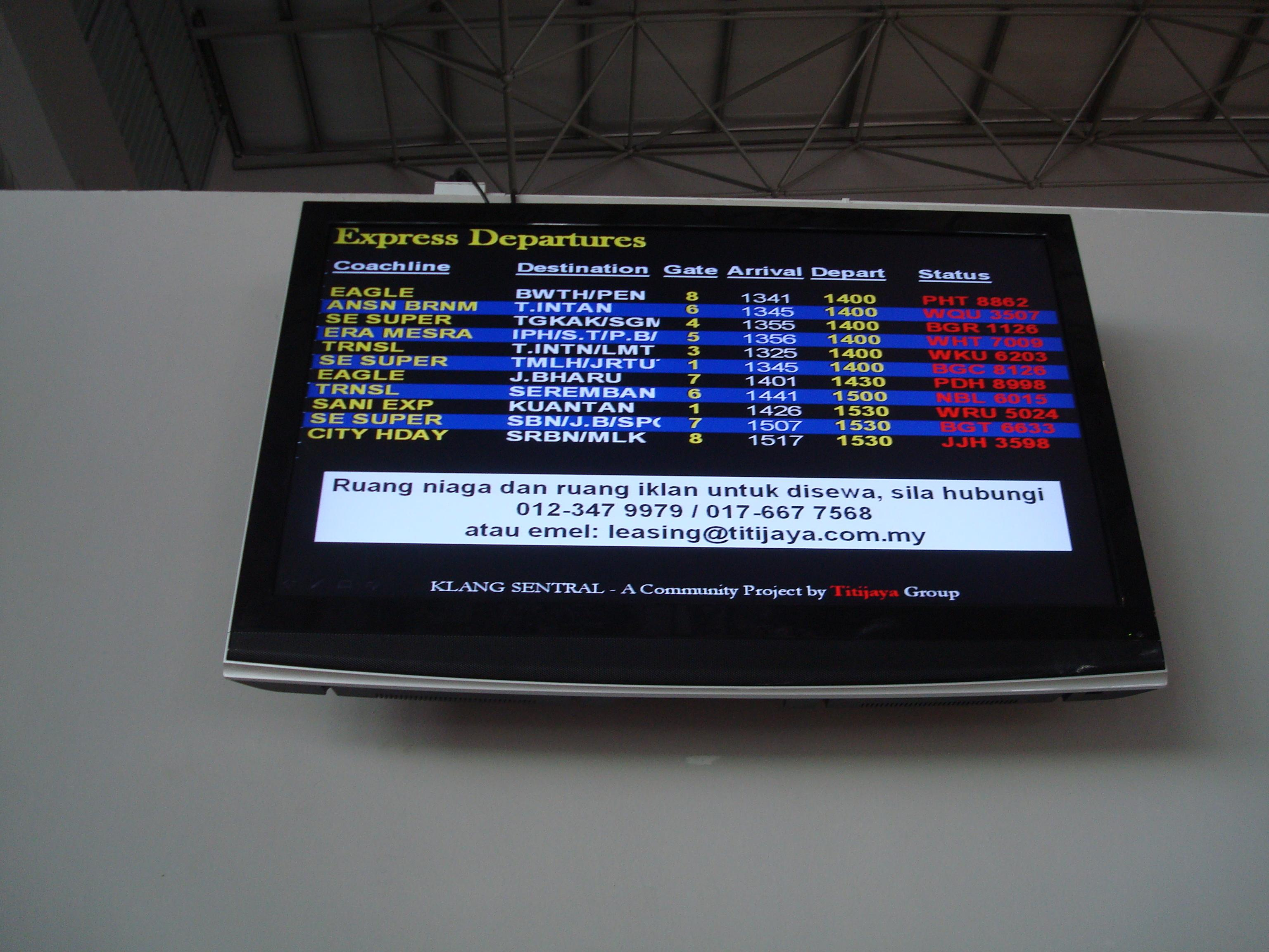 Klang Sentral Integrated Coach Information System